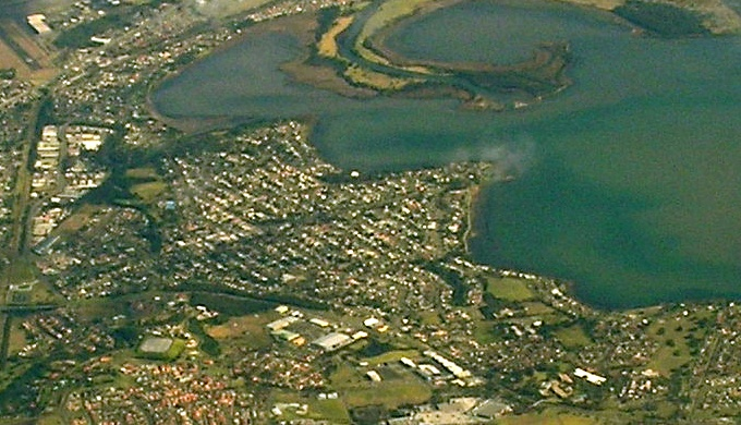 Aerial photo of Oak Flats from east near Wollongong